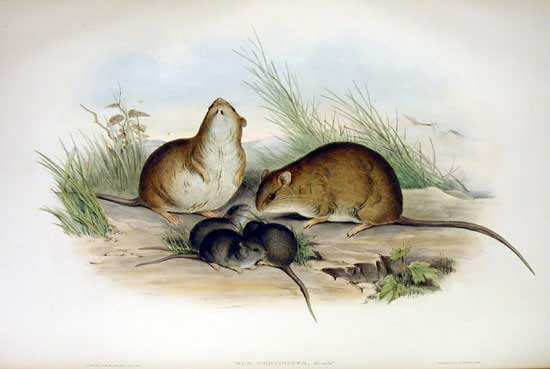 Fawn-footed Melomys : Melomys cervinipes (formerly known as Mus cervinipes)